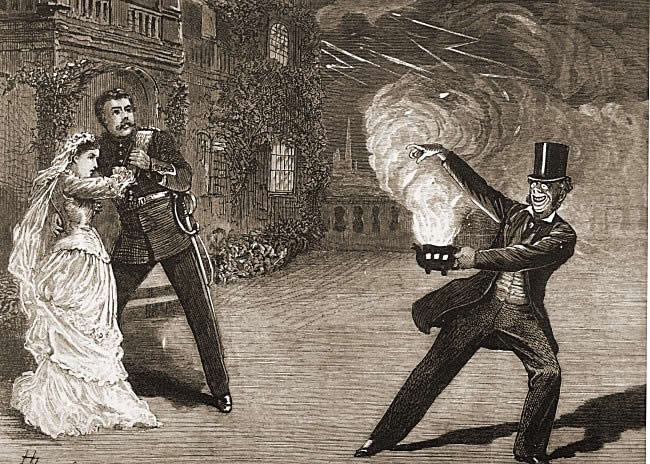 Drawing of a scene from The Sorcerer from 1877.